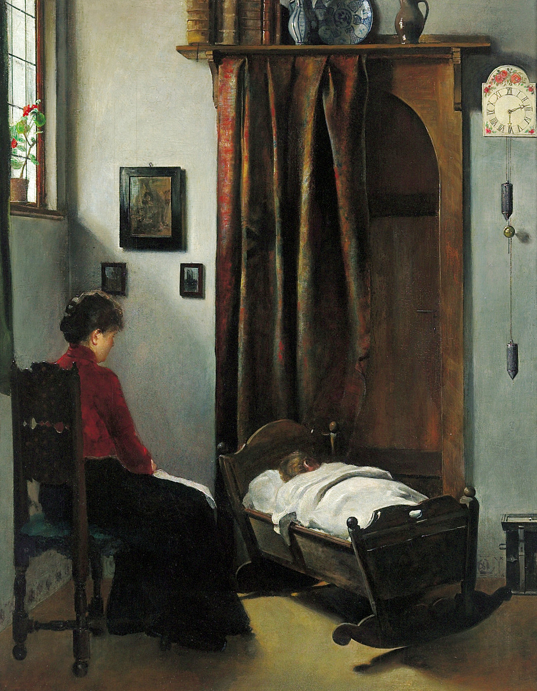 Painting of woman watching over sleeping baby